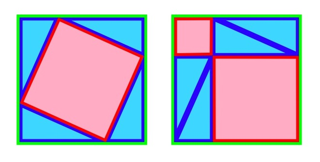 Pythagorean Theory proof